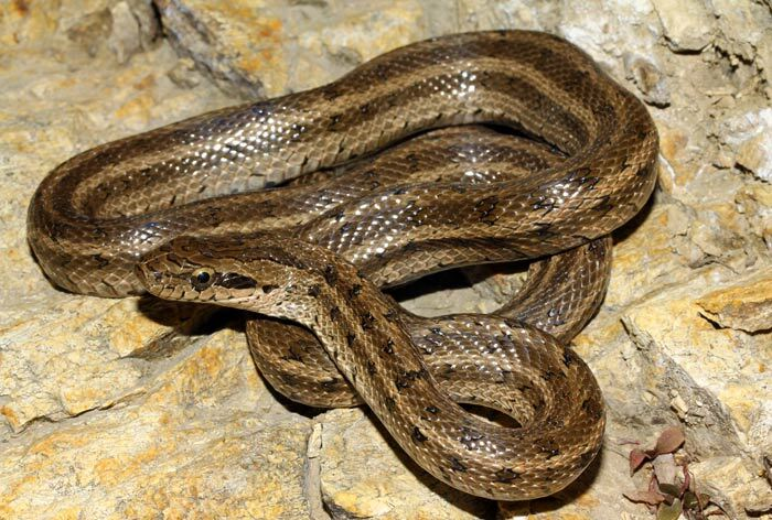 Elaphe dione